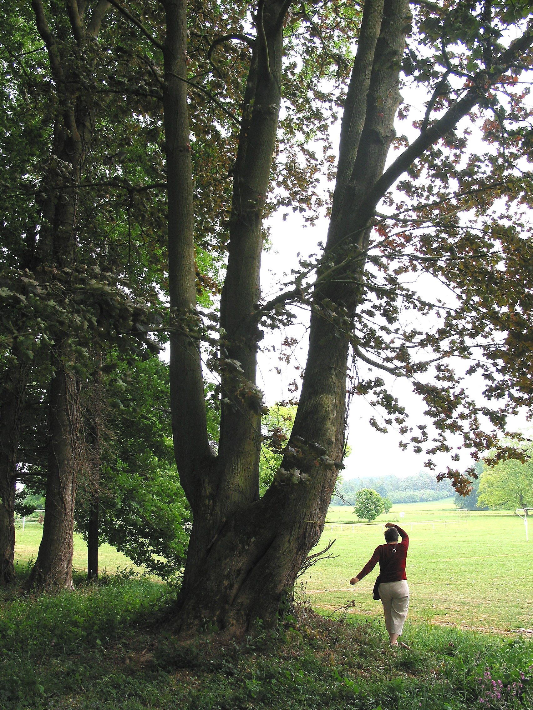 Norway maple cv. “Schwedleri„.